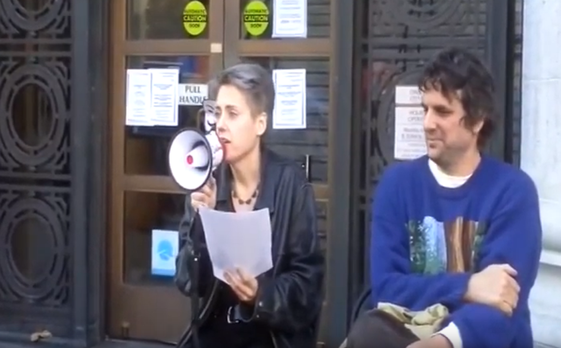 Youtube description: Combined footage of all four Deep Green Resistance related speakers at Occupy Oakland in 2011: Derrick Jensen, Lierre Keith, Aric McBay, and Waziyatawin. You can also see each speaker individually in the other videos in this playlist. Help us caption & translate this video!